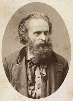 Hans Christian Henneberg (1826-1893), Danish xylographer and photographer